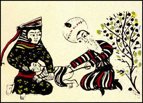 Serafeddin Sabuncuoglu lived in central Anatolia and authored in Turkish one of the earliest surgical textbooks, Cerrahiyetul-Haniyye, in 1465. Three original handwritten copies of this book are in existence. Sabuncuoglu, an artist and calligrapher, included color illustrations of his surgical techniques. He is often referred to as the father of pediatric surgery because of his original contributions to the surgical treatments for hydrocephalus, webbed fingers, inguinal hernias, and erroneous circumcisions. His description of the surgical treatment for imperforate anus includes this miniature drawing.